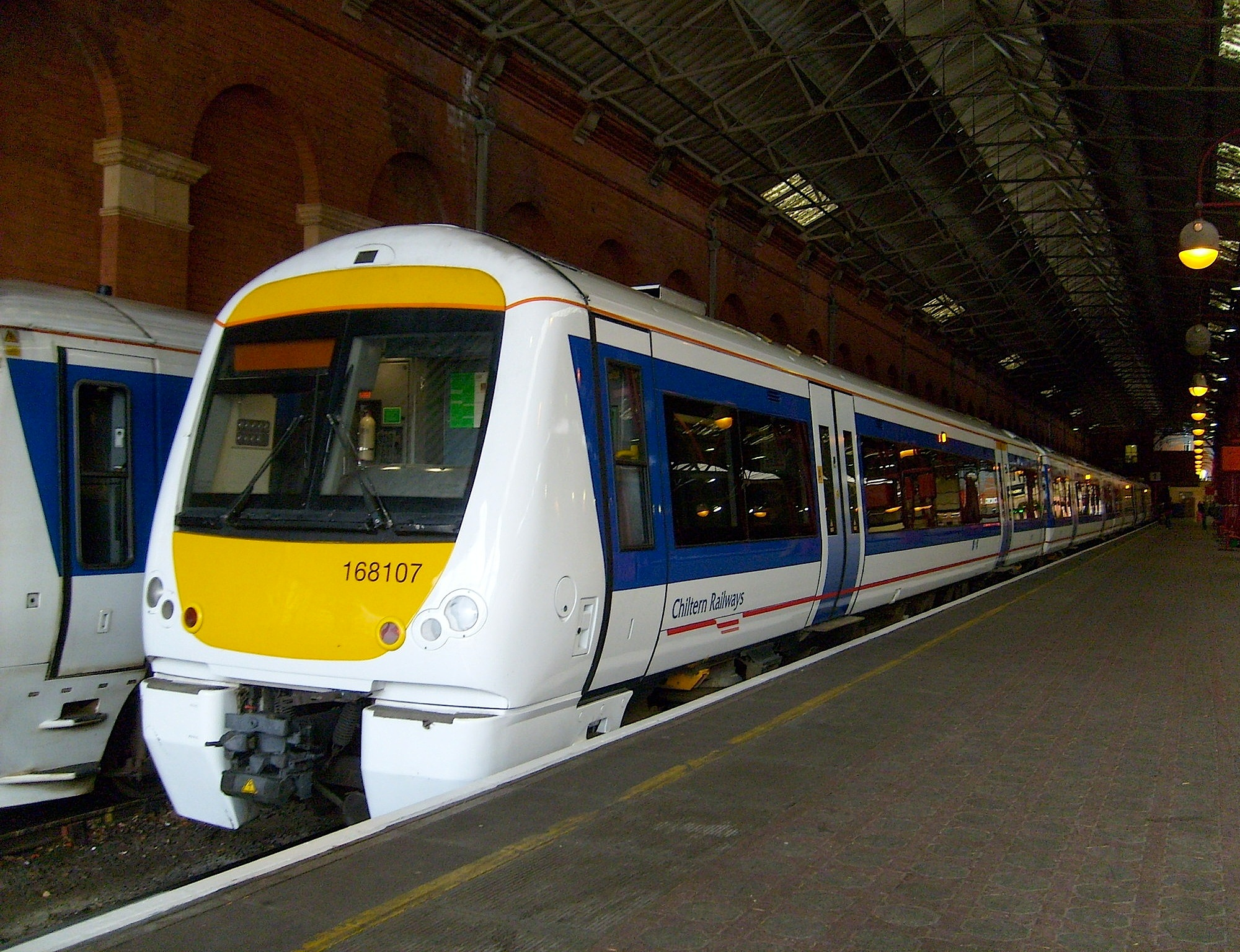 Chiltern Railways Class 168/1 No. 168107 at London Marylebone